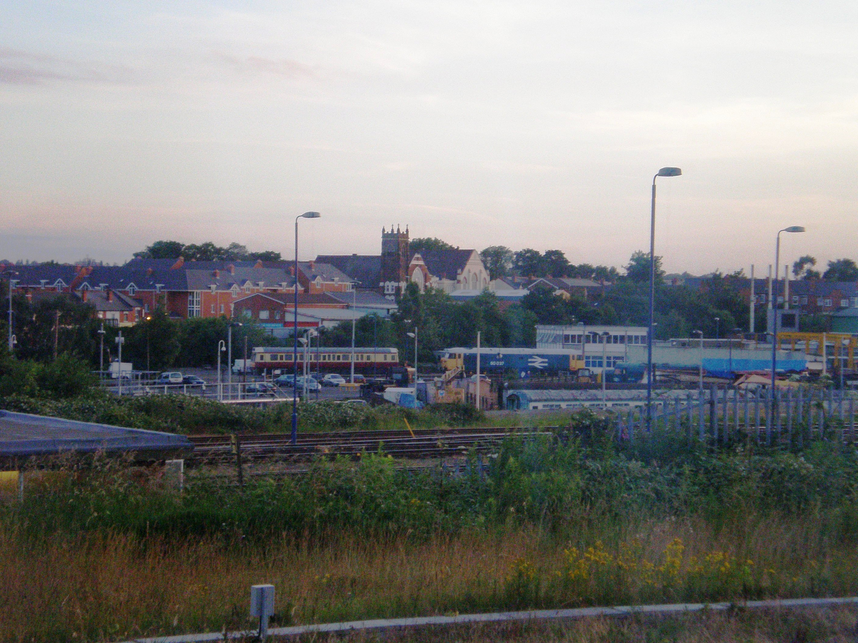 Tyseley district, Birmingham, West Midlands